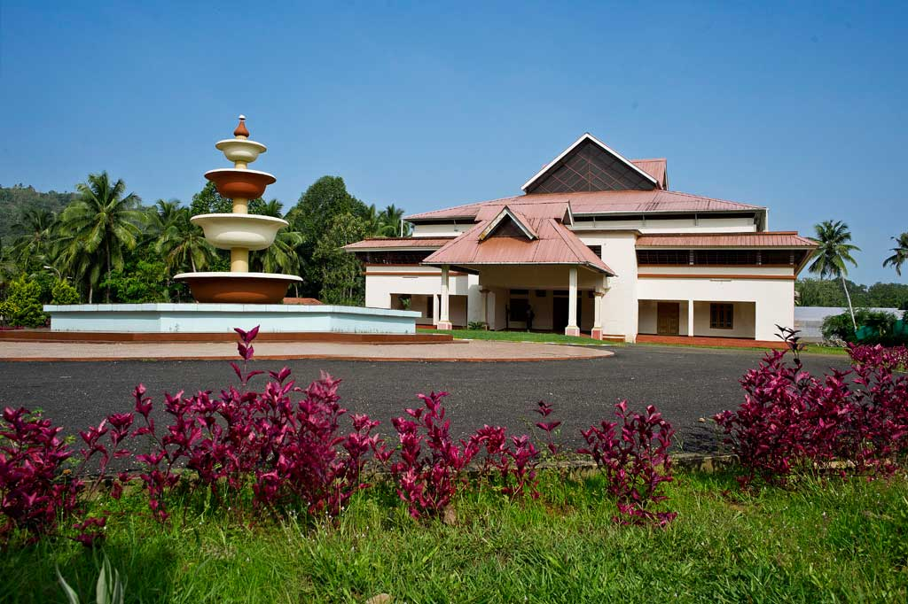 SJCET PALAI Auditorium